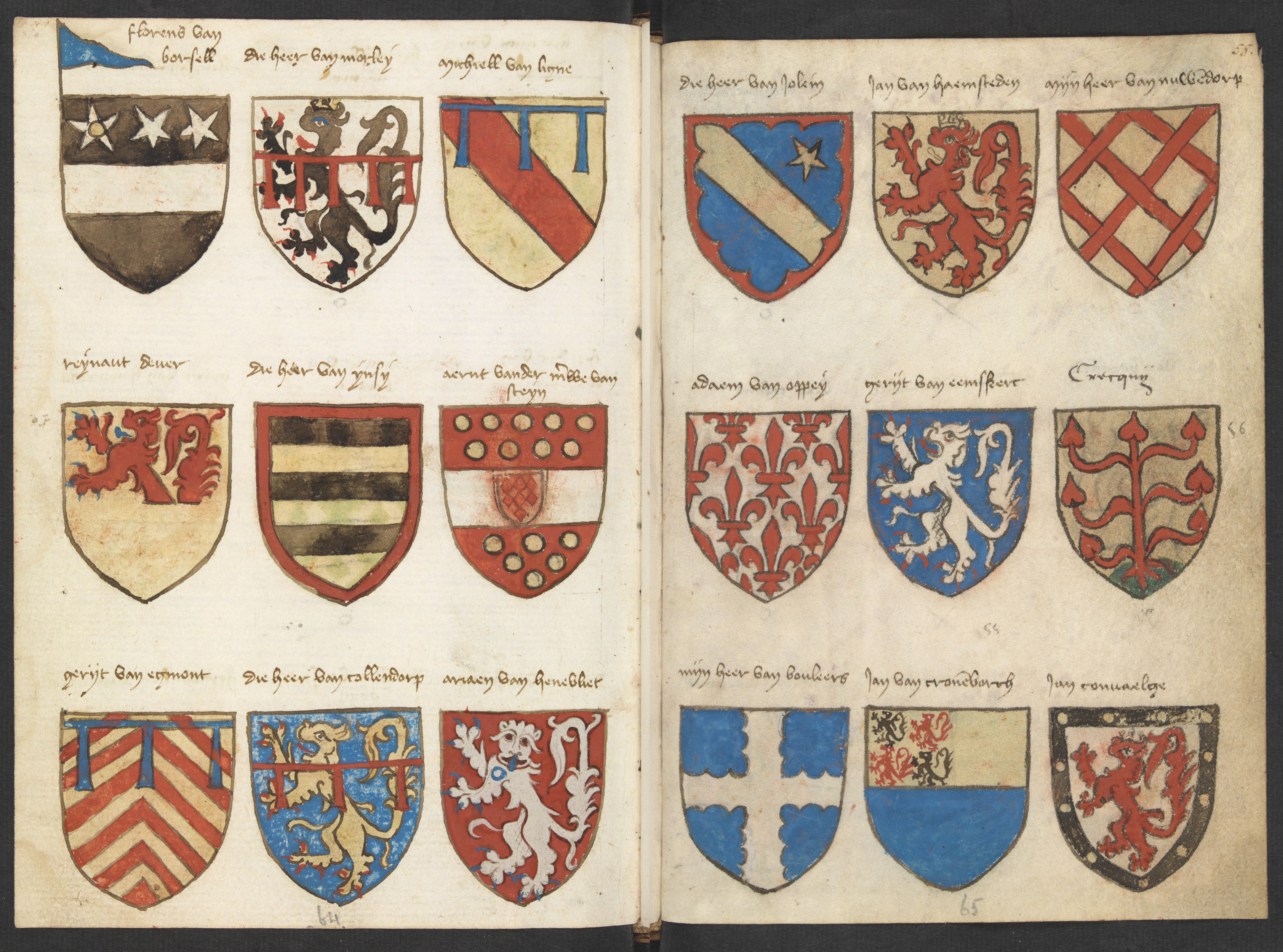 Lefthand side folio 054v; righthand side folio 055r from the Beyeren armorial / Wapenboek Beyeren